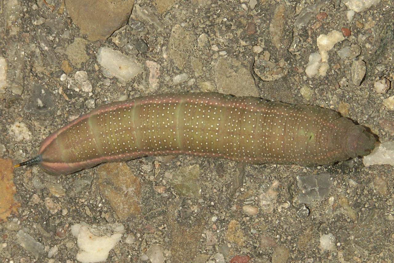 Hummingbird Hawk-moth